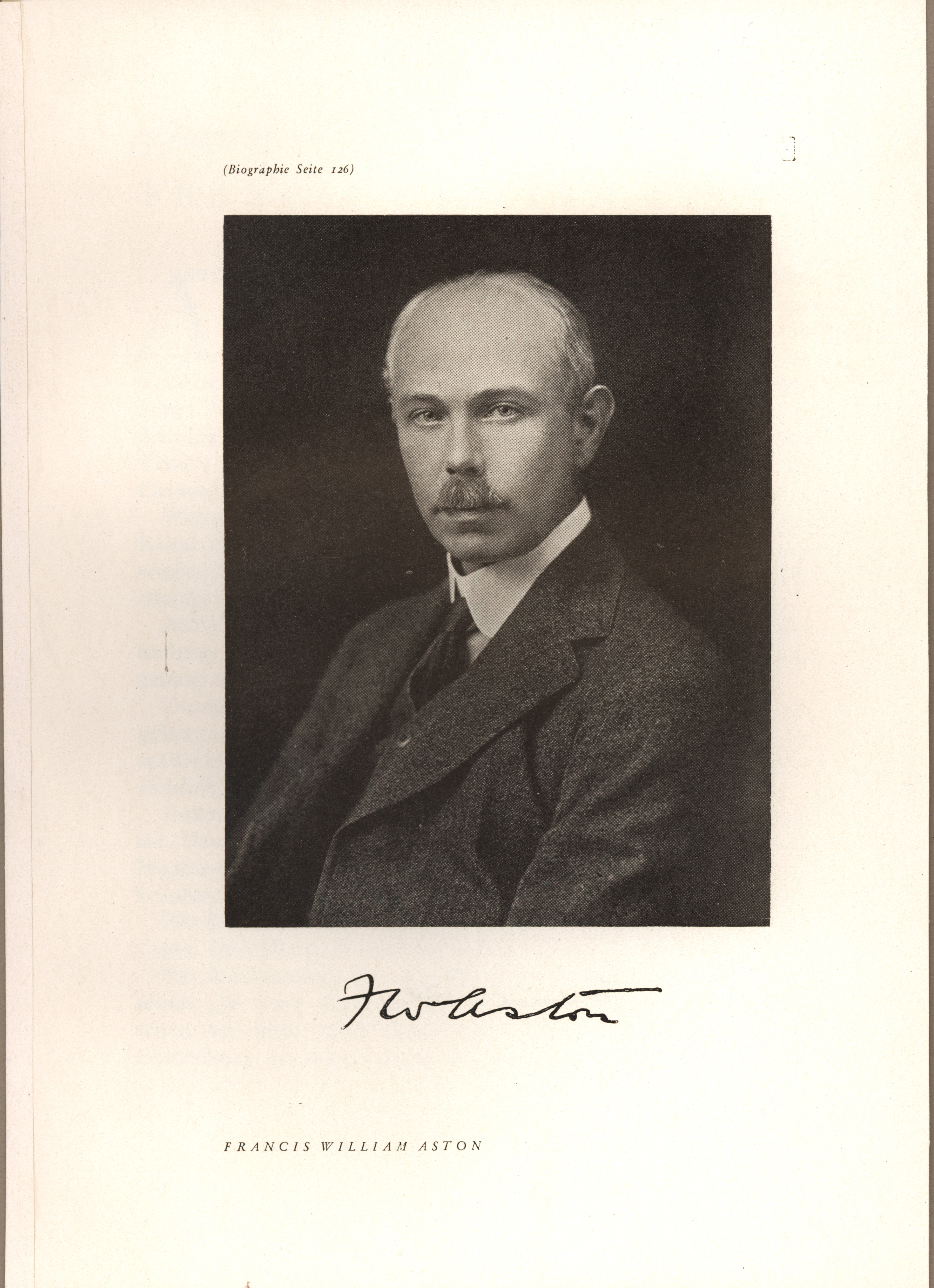 Creator/Photographer: Unidentified photographer Medium: Medium unknown Dimensions: 12.9 cm x 9.9 cm Date: prior to 1945 Collection: Scientific Identity: Portraits from the Dibner Library of the History of Science and Technology - As a supplement to the Dibner Library for the History of Science and Technology's collection of written works by scientists, engineers, natural philosophers, and inventors, the library also has a collection of thousands of portraits of these individuals. The portraits come in a variety of formats: drawings, woodcuts, engravings, paintings, and photographs, all collected by donor Bern Dibner. Presented here are a few photos from the collection, from the late 19th and early 20th century. Persistent URL: Repository: Smithsonian Institution Libraries Accession number: SIL14-A7-08